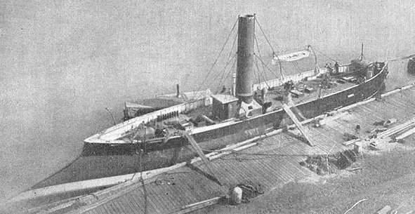 USS Alarm (1874-1898) while she was alongside at the New York Navy Yard, Brooklyn, New York